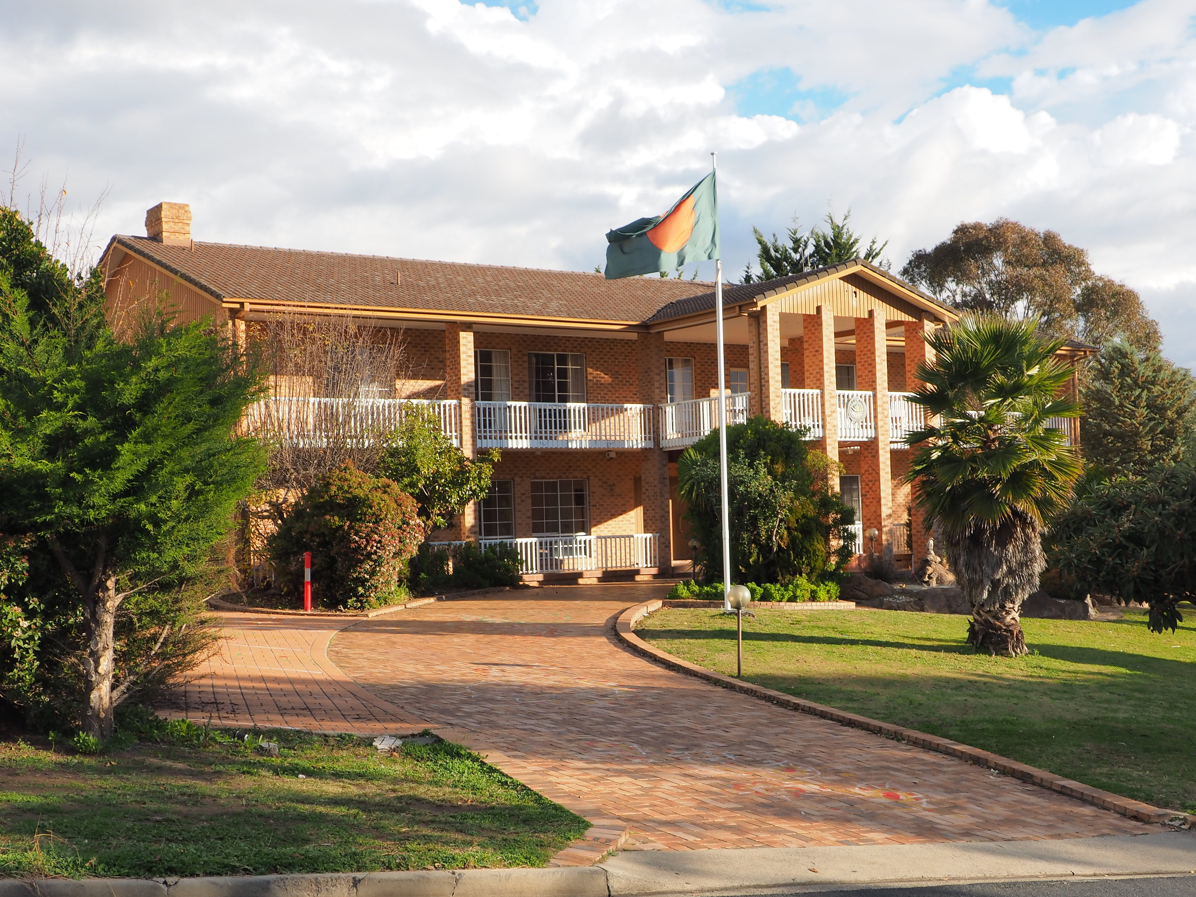 The High Commission of Bangladesh to Australia